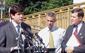 Congressman Emanuel (middle) joined Governor Rod Blagojevich (left), U.S. Senators and Members of Congress urging Medicare Conferees to include Reimportation language in the Final Medicare Legislation.